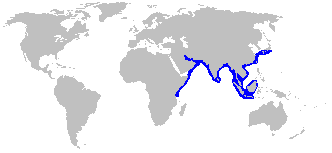 Distribution map for Scoliodon laticaudus